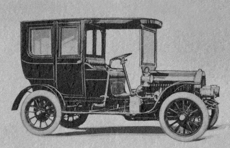 drawing of a 1905 Pierce-Arrow town car